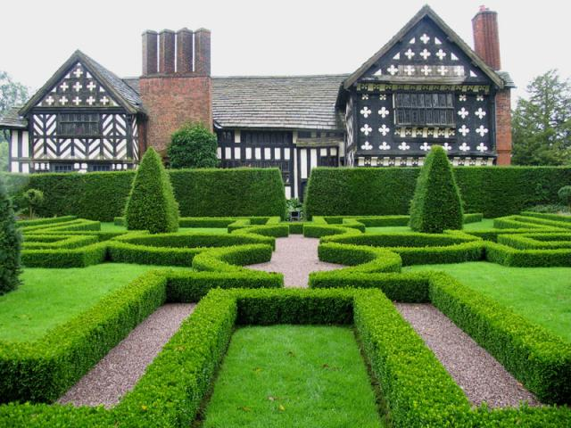 Knot Garden at Little Moreton Hall: Cheshire. The Garden is situated in the top left hand section of the square.